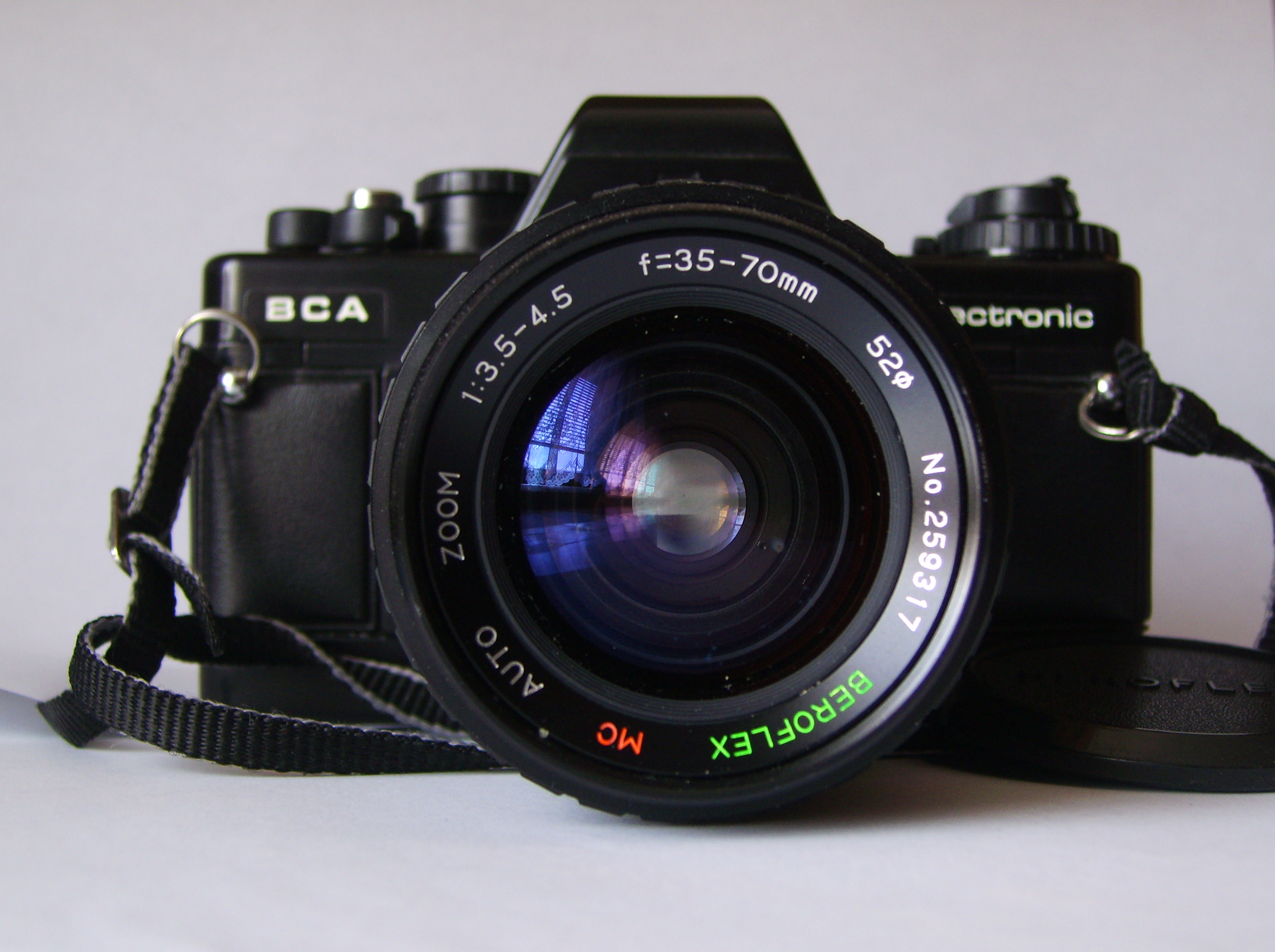 VEB Pentacon Dresden: Praktica BCA electronic (1986-1989) Manual